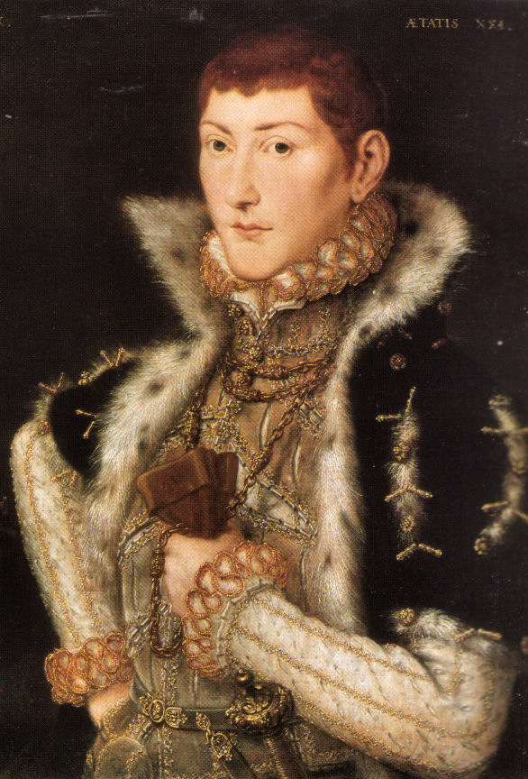 Gregory Fiennes, 10th Baron Dacre, detail from Image:Mary Nevill and Gregory Fiennes Baron Dacre v.2.jpg